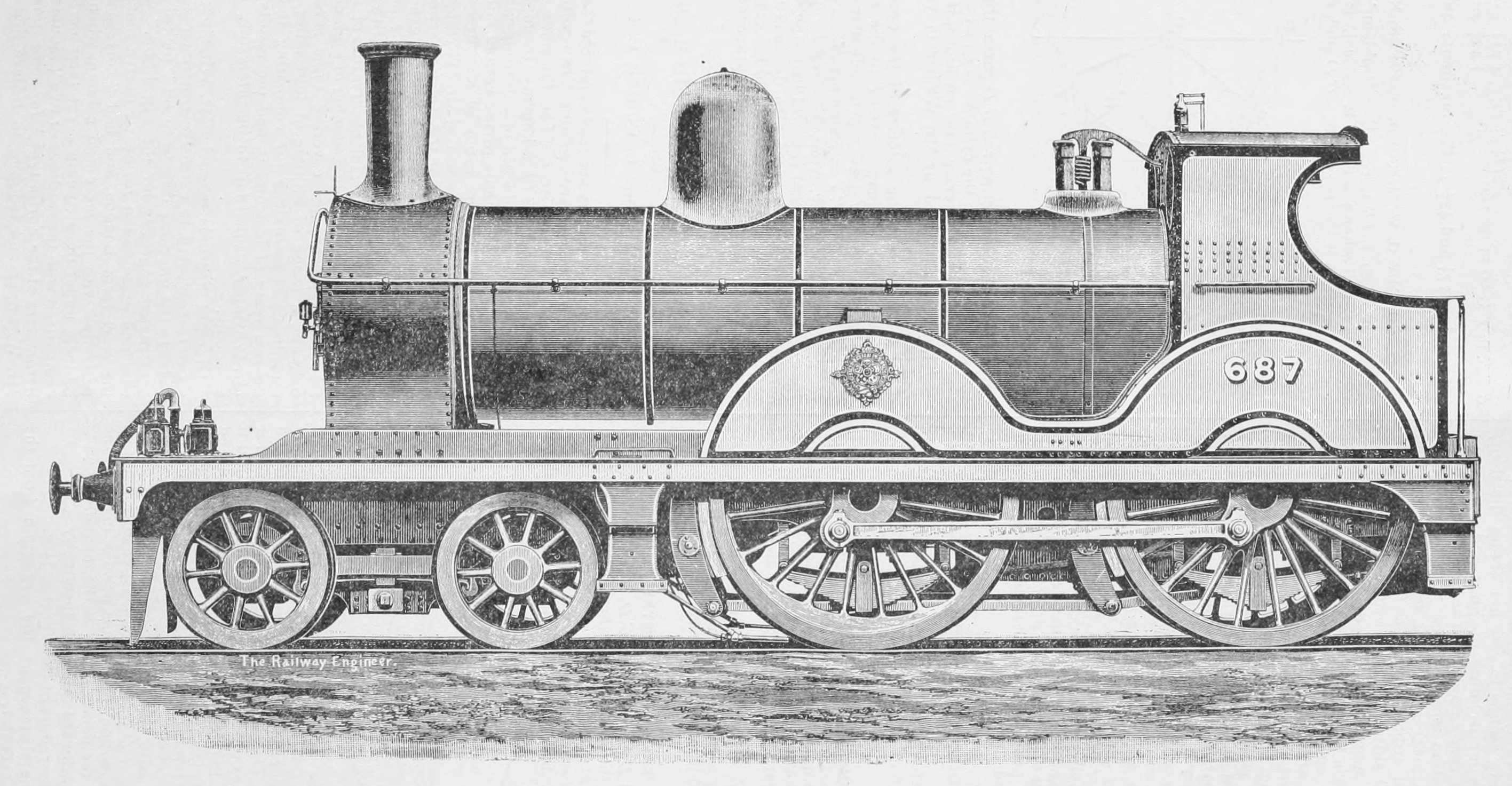 Manchester, Sheffield and Lincolnshire Railway Class 2 locomotives No. 687. Built May 1892.